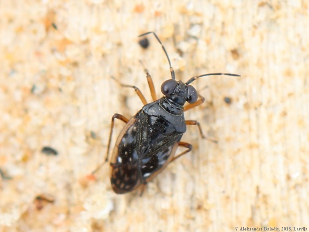 Chartoscirta elegantula subsp. longicornis Jak.